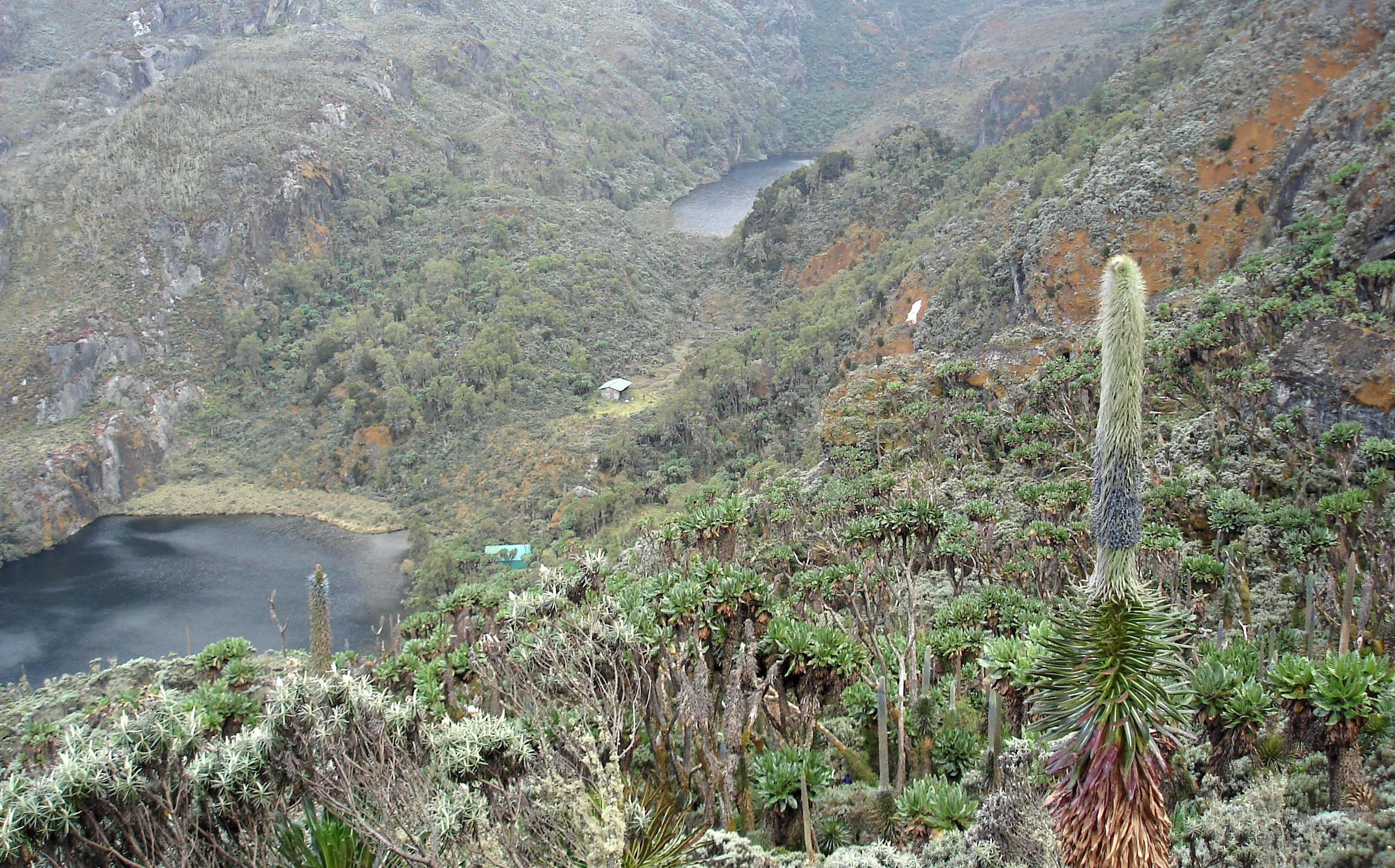 Kitandara Lakes and Kitandara Hut, Rwenzori National Park, Uganda, 2008